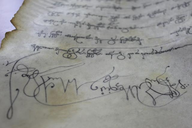 ანტონ ჭყონდიდელ-მთავარეპისკოპოსის თხოვნით მეფემ შეწირა სხალტბას, წყაროს სათავეში მოსახლე ქოსაისძენი წყლის მკაზმავებად. საბუთის დამწერია მწიგნობარი იაკობ იწრელისძე. სიგელს ამტკიცებენ თამარ მეფე, დავით სოსლანი, მღვიმის კრებული, ანტონ ჭყონდიდელი და ქართლის მთავარეპისკოპოსი. საბუთს ახლავს ხელრთვები: 1. მტკიცე ყოს ღმერთმან შეუცვალებელად (თამარ მეფე) 2. ქ. მე მეფესა დ ა ვ ი თ ს ა ც ა დამიმტკიცებია, მტკიცეა ნებითა ღ(მრ)თისათა (დავით სოსლანი). Calligraphies of Queen Tamar of Georgia and David Soslan